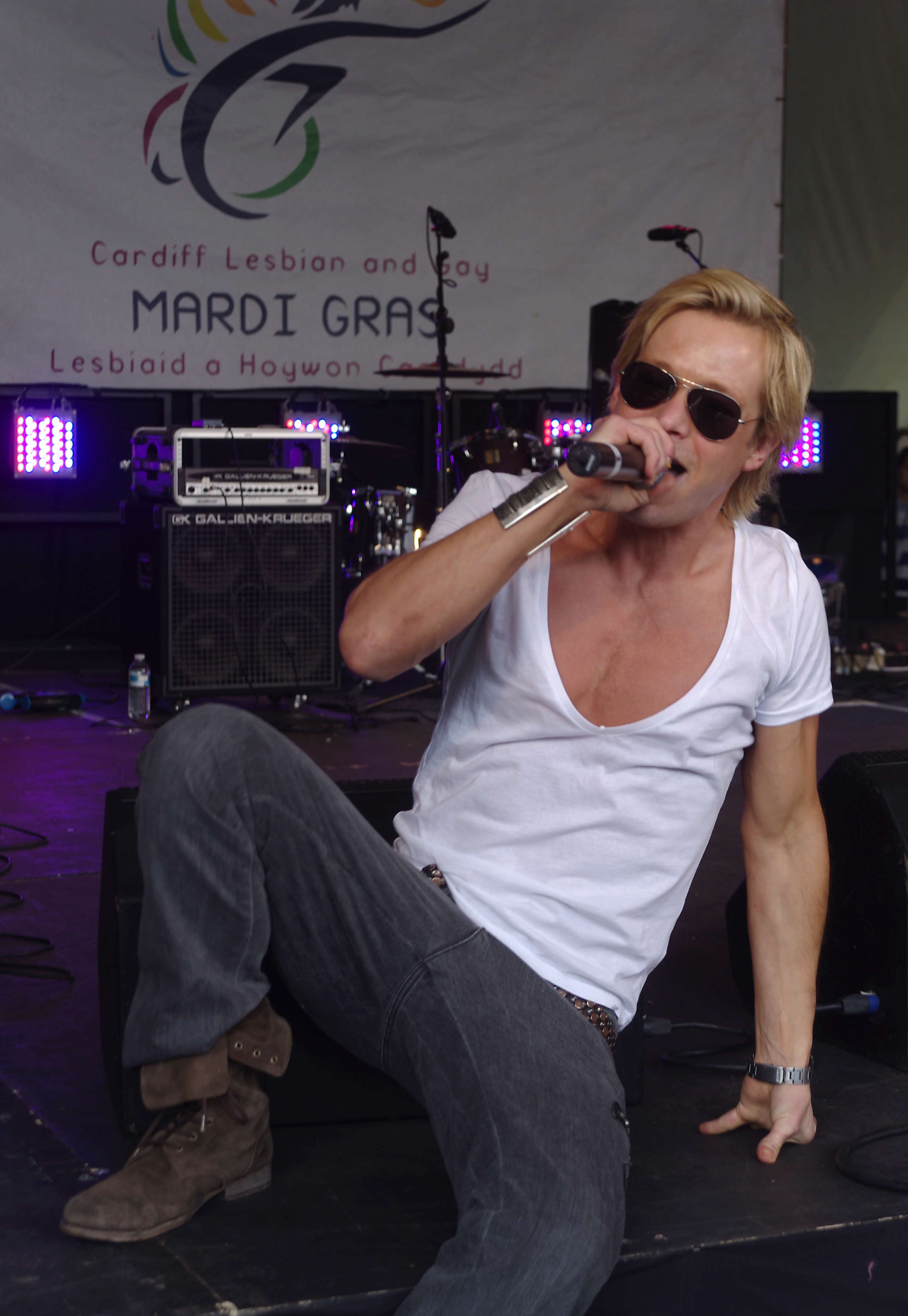 Adam Rickitt performs on the main stage at Cardiff Mardi Gras.